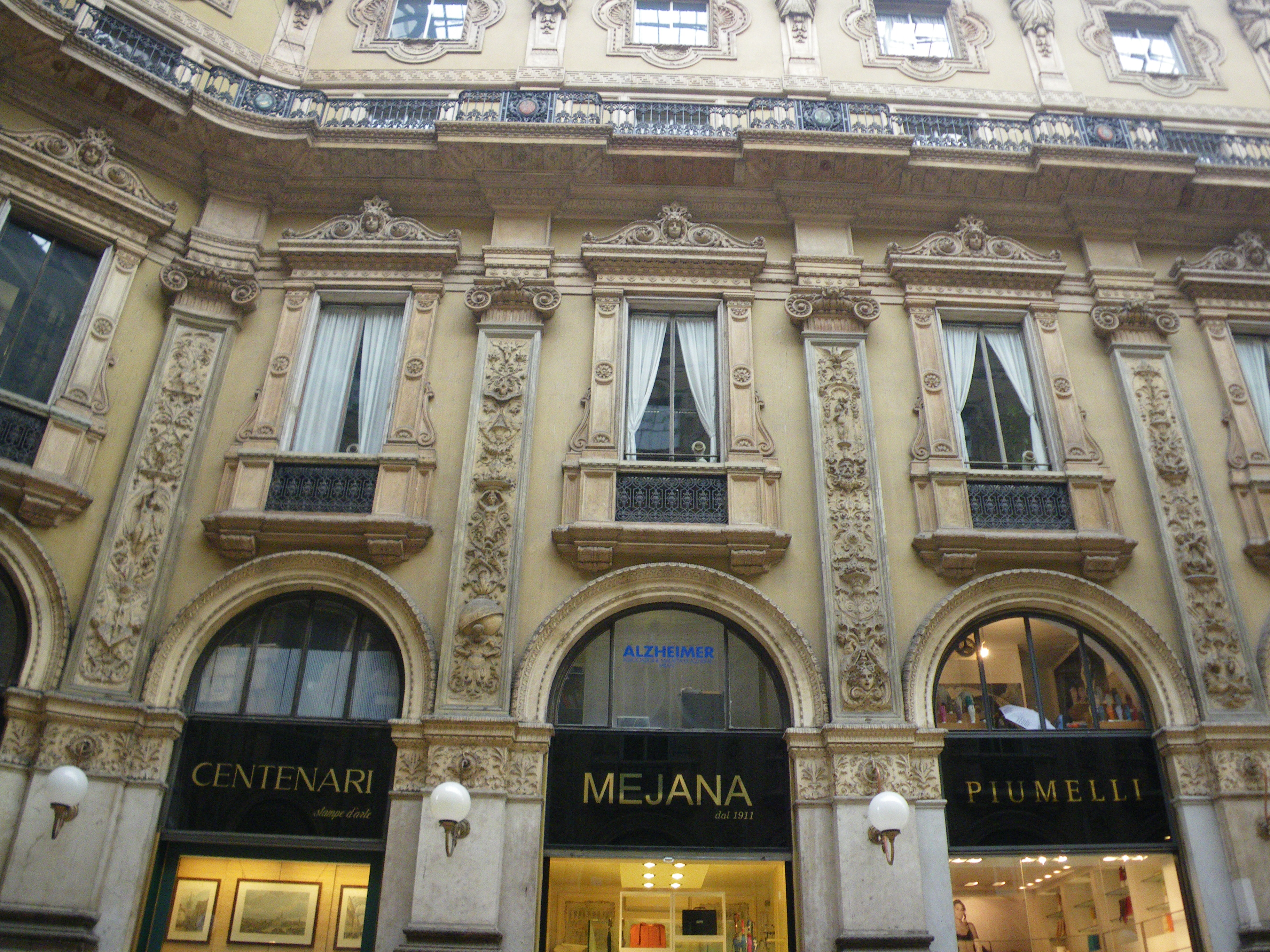 Milan, Italy